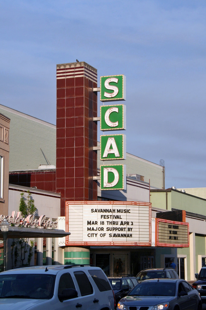 Trustee's Theater at the Savannah College of Art and Design